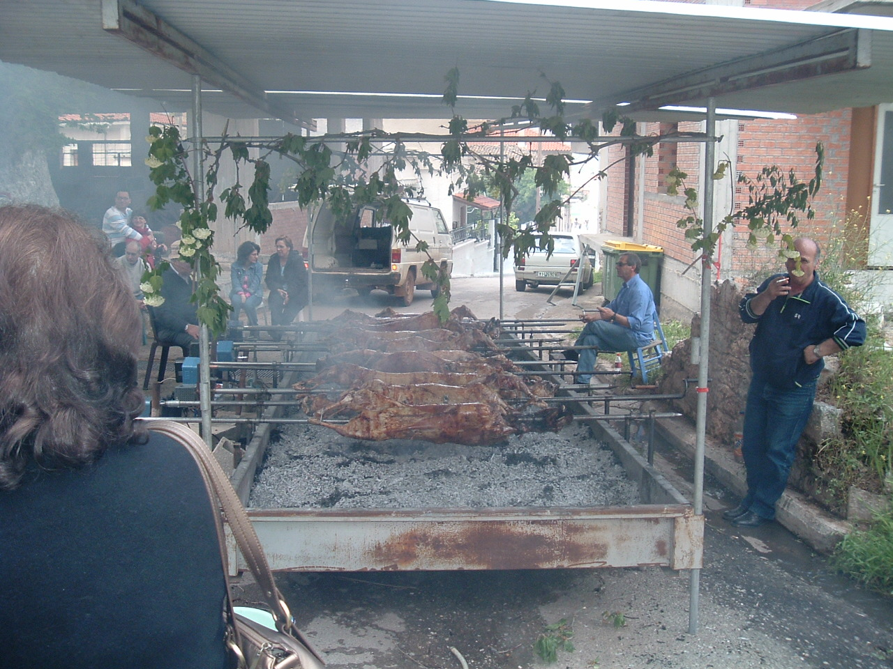 Easter in Desfina, Fokida, Greece. Greek traditional lamb